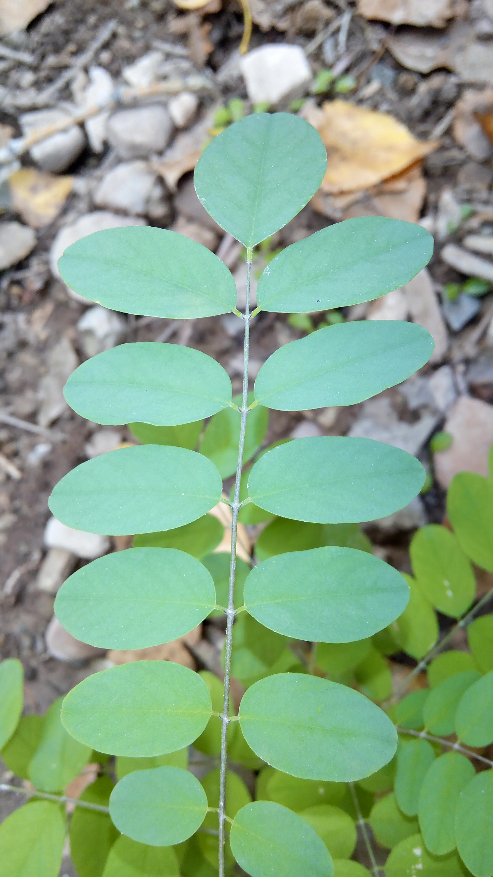 Black Locust Leaf Close Up